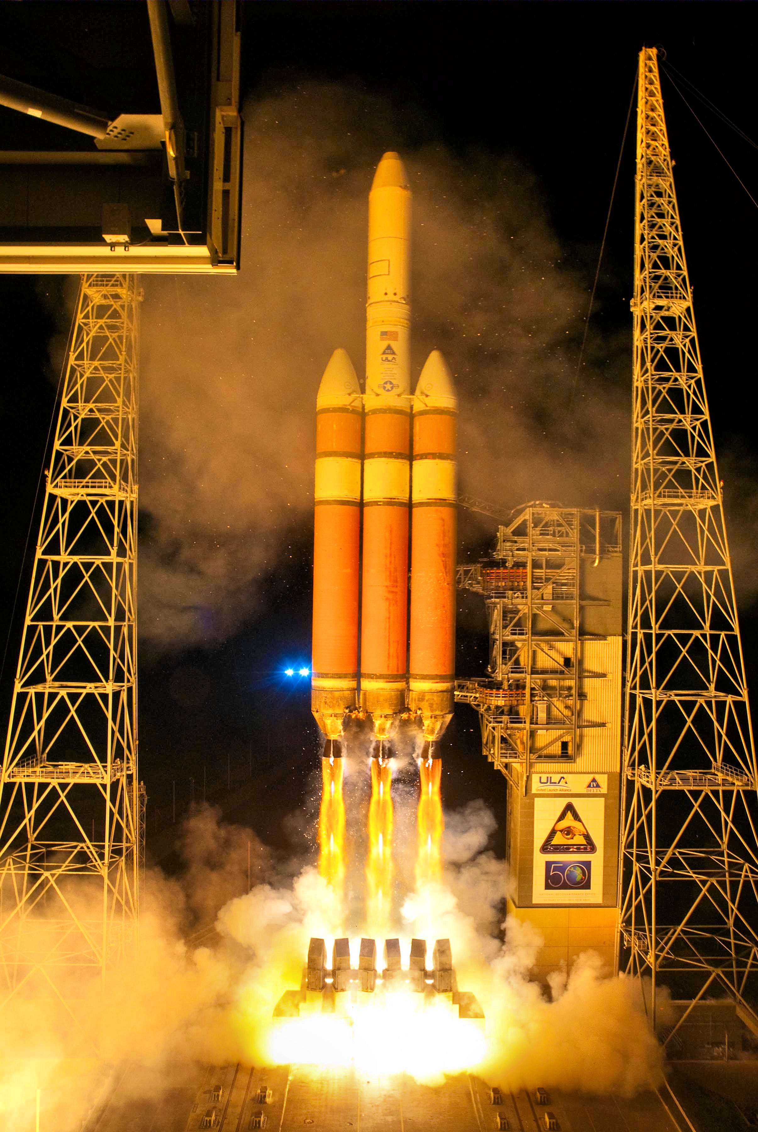 The 45th Space Wing successfully launched a Delta IV-Heavy rocket carrying the NROL-32 classified payload for the National Reconnaissance Office Nov. 21 from Cape Canaveral Air Force Station.